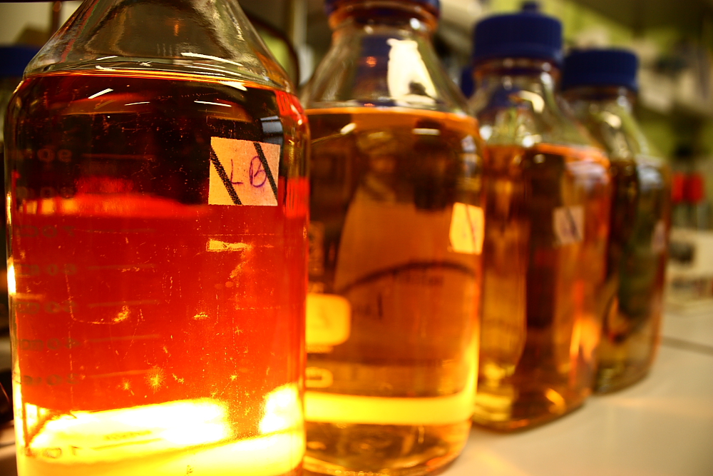 One of the most common laboratory media - LB, lysogeny broth.